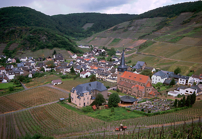 The Town of Mayschoß, Germany, seen from the red wine wandering path (Rotweinwanderweg)